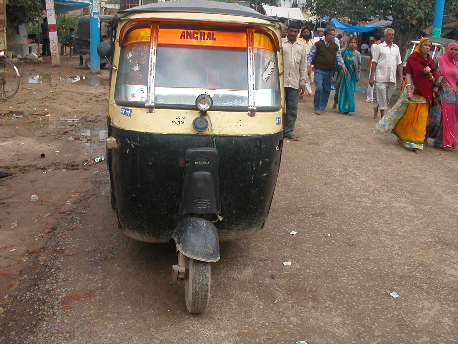 Auto rickshaw in Radha-Kund, India